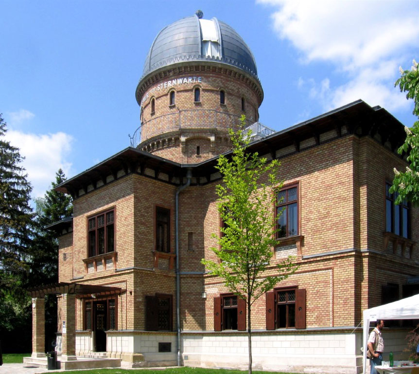 Kuffner-Observatory, Vienna, Austria. Main builduing from the southeast.